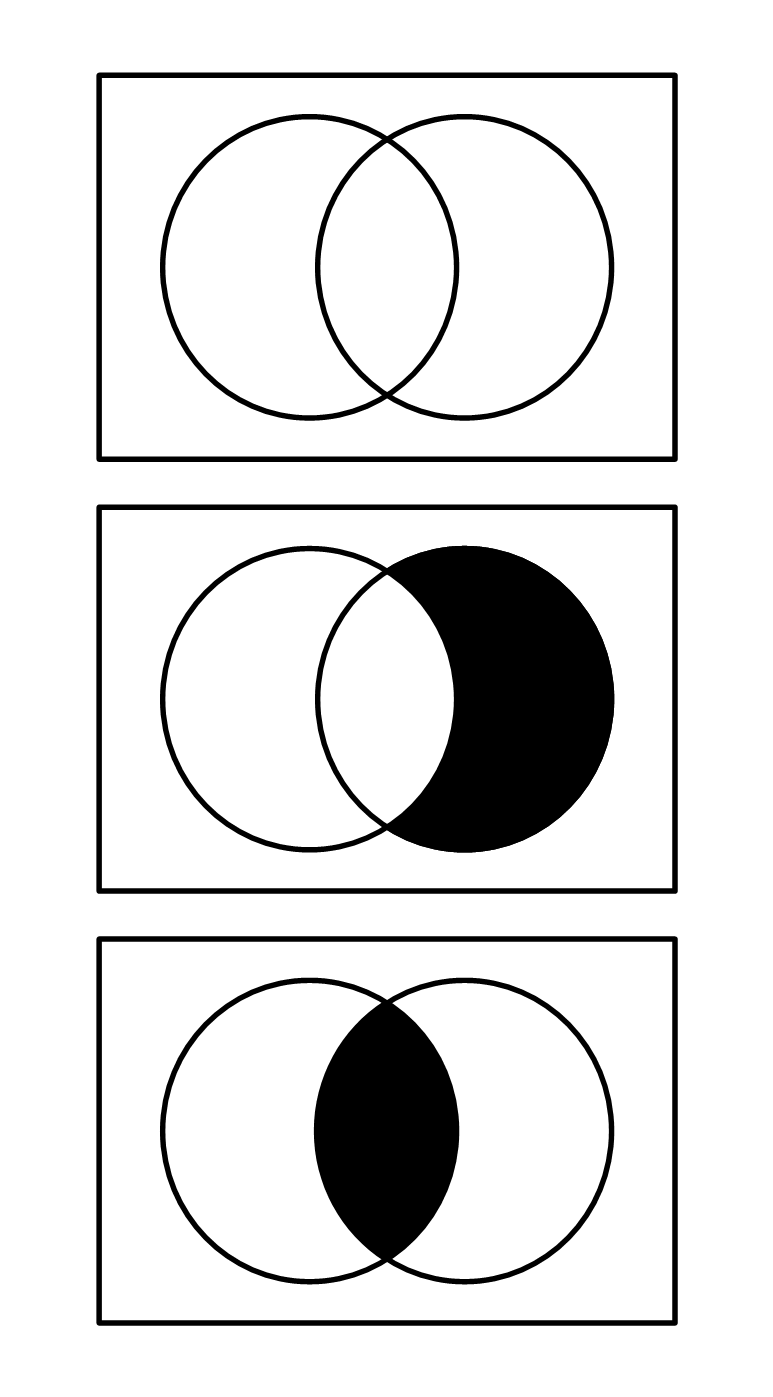 Venn iterseccion inclusion disyuncion